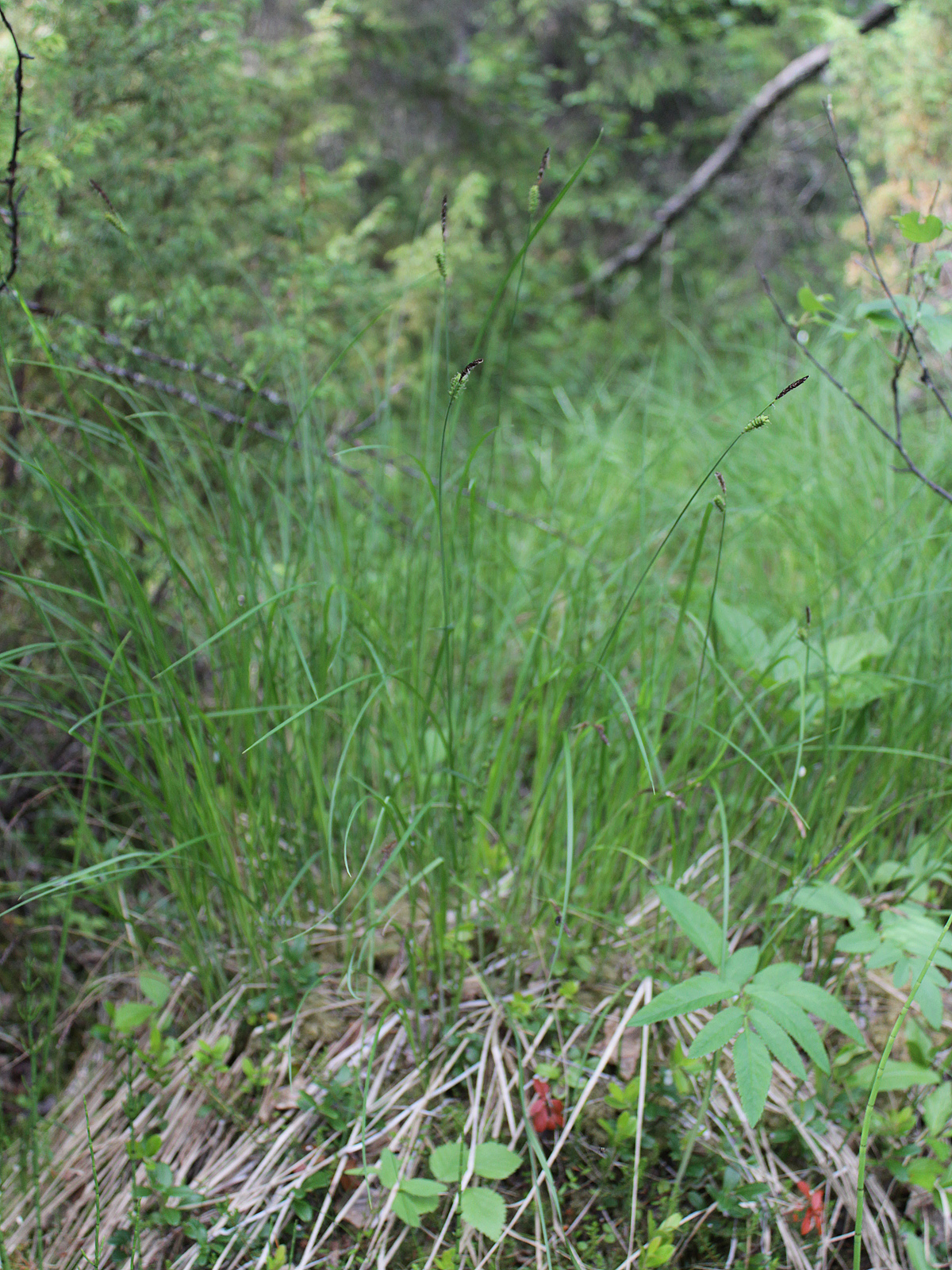 Cyperaceae, Carex cespitosa